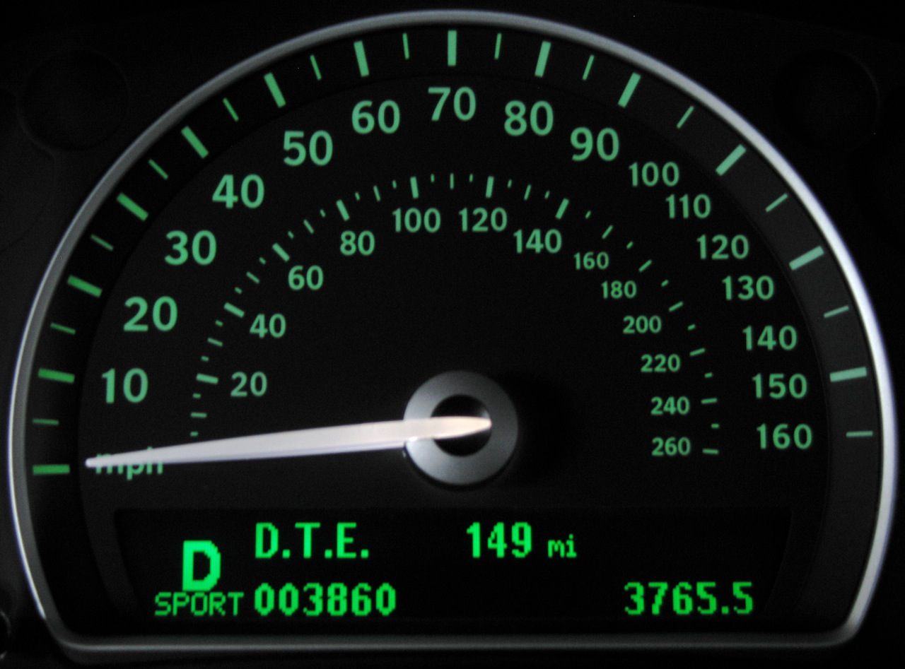 Saab Information Display on a 2008 Turbo X.